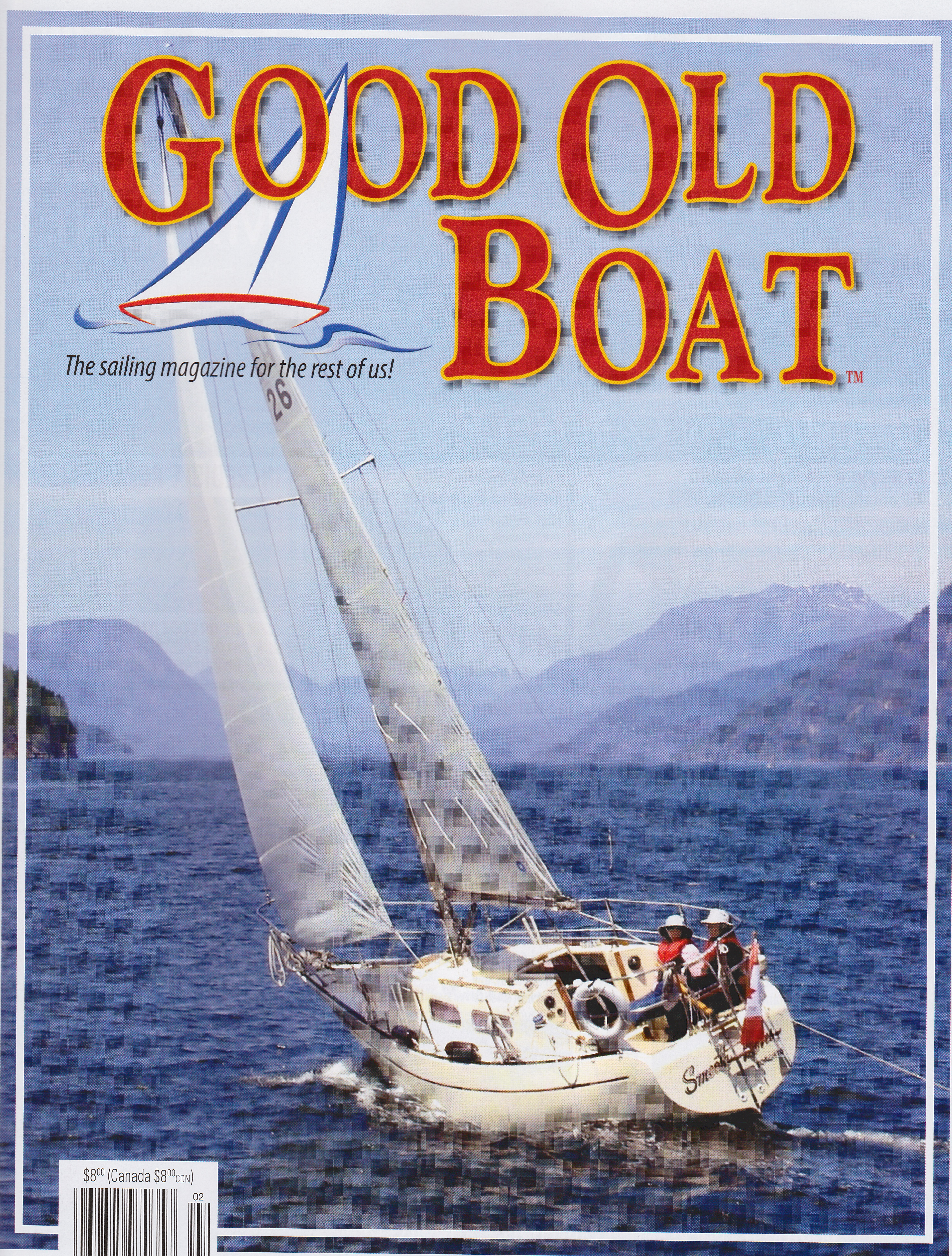 Good Old Boat cover Jan/Feb 2018